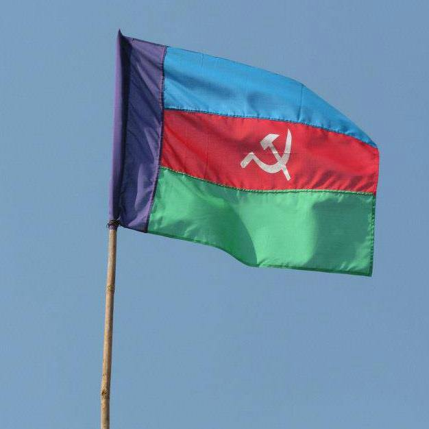 Shramik Mukti Dal Flag